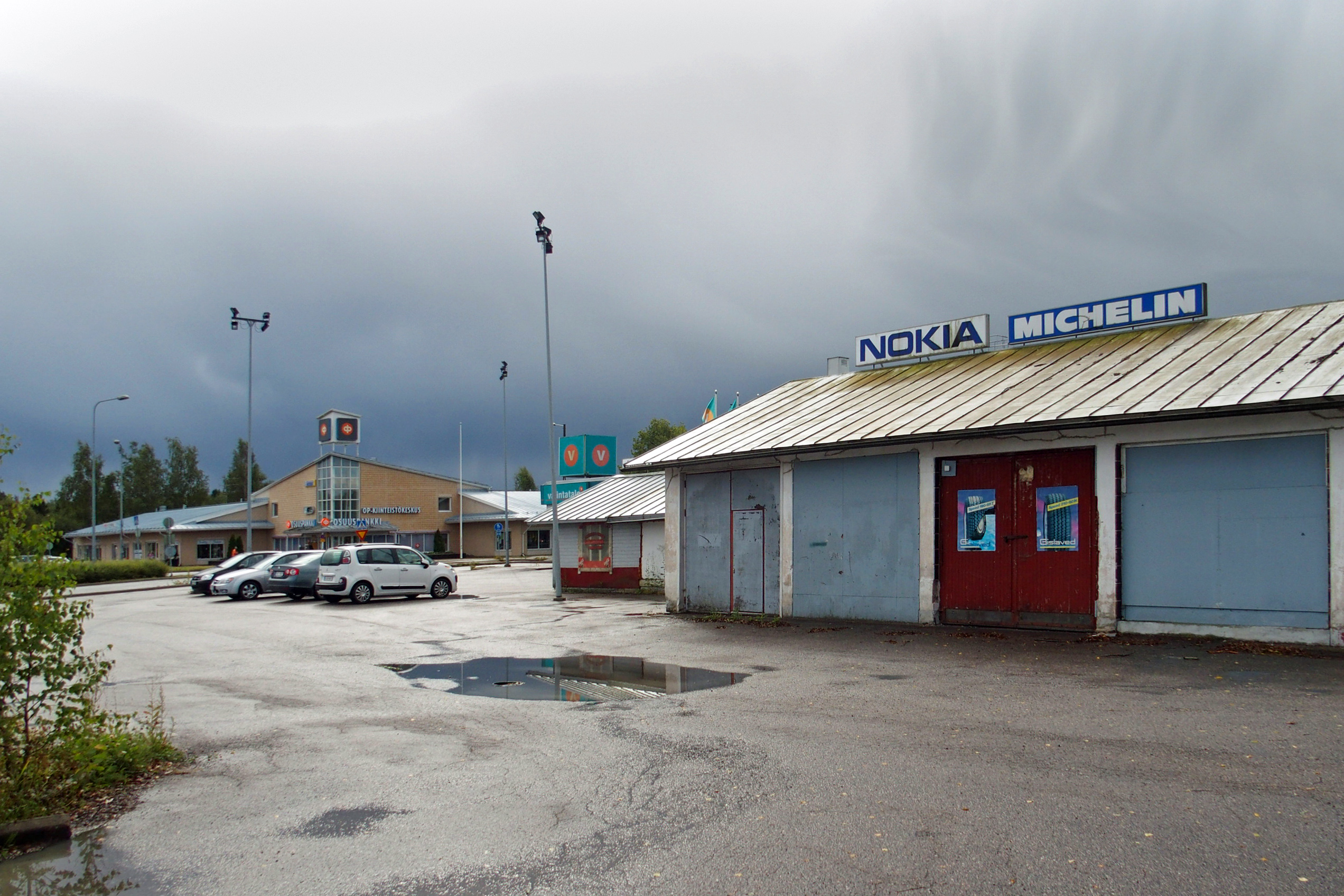 Commercial buildings in Aura town centre